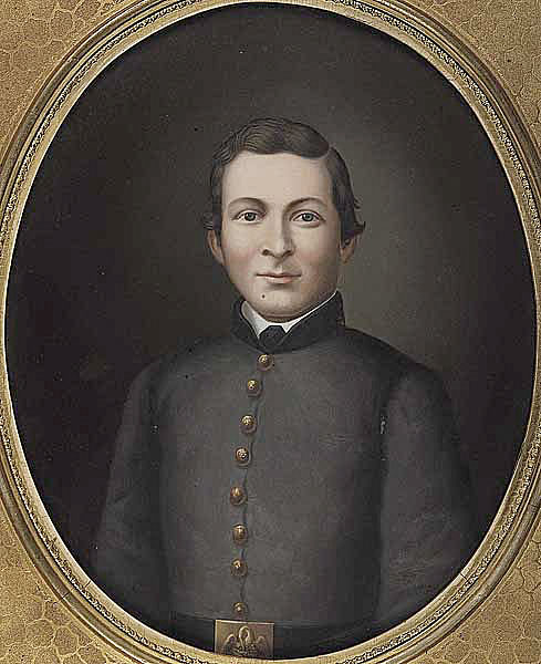 "William J. Behan as a Confederate Soldier". Painting of William J. Behan of the Washington Artillery of Louisiana. Behan would later be mayor of New Orleans. Pastel painting, 16 in. x 12 3/4 in, #509, Not dated